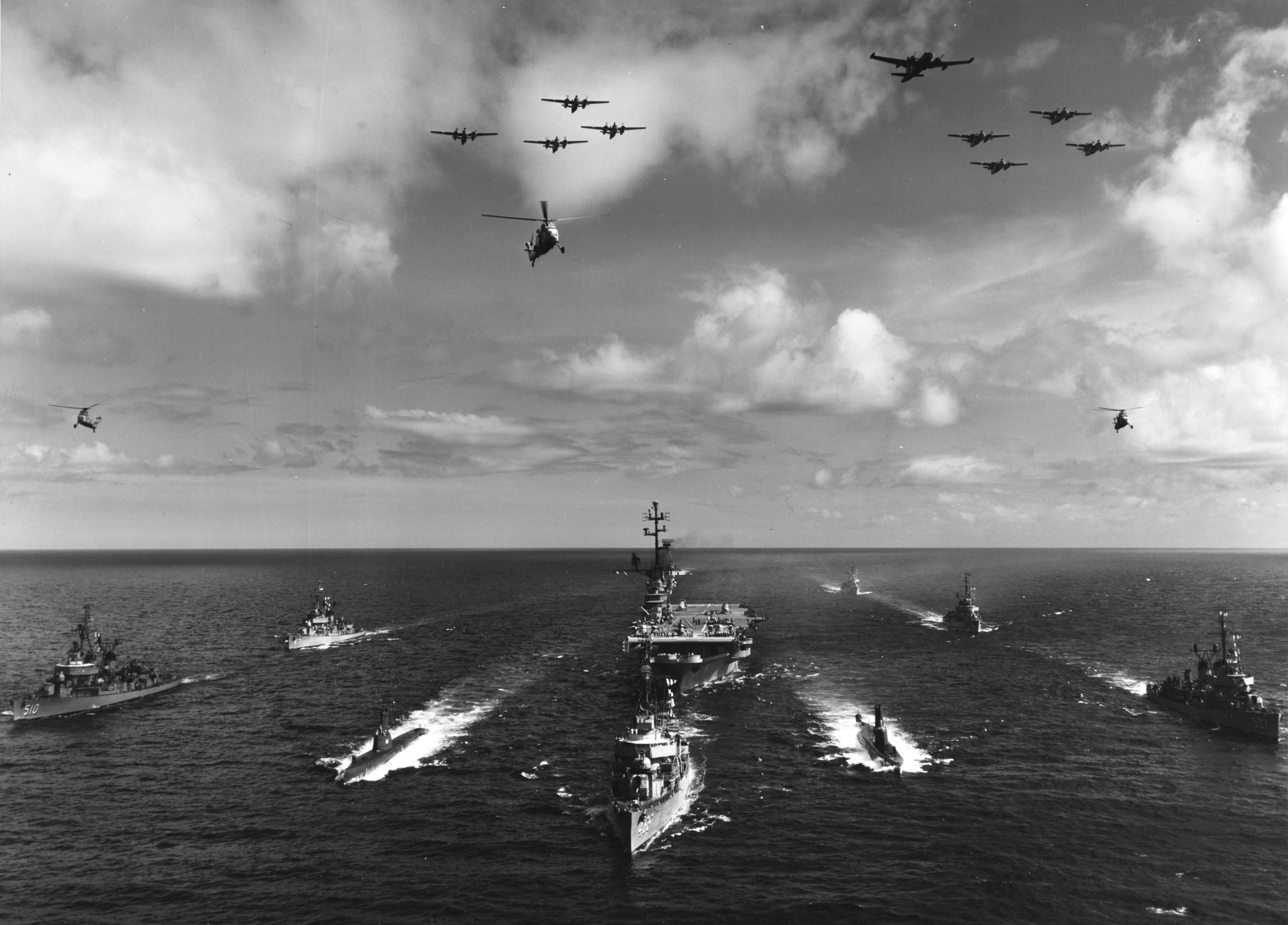 View ot the U.S. Navy Task Group ALFA: Formation portrait of the Atlantic Fleet anti-submarine group's ships and aircraft, taken during exercises in 1959 with Secretary of the Navy William B. Franke embarked. The ships include the group flagship, the aircraft carrier USS Valley Forge (CVS-45) in center, two submarines, and seven destroyers. Identifiable among the latter are USS Eaton (DDE-510) at left front, USS Beale (DDE-471) following Eaton, USS Waller (DDE-466) in the center foreground, and USS Conway (DDE-507) at right front. Aircraft overhead include two four-plane formations of Grumman S2F-1/-2 Trackers and three Sikorsky HSS-1 Seabat helicopters from the Valley Forge air group, plus one shore-based Lockheed P2V Neptune.